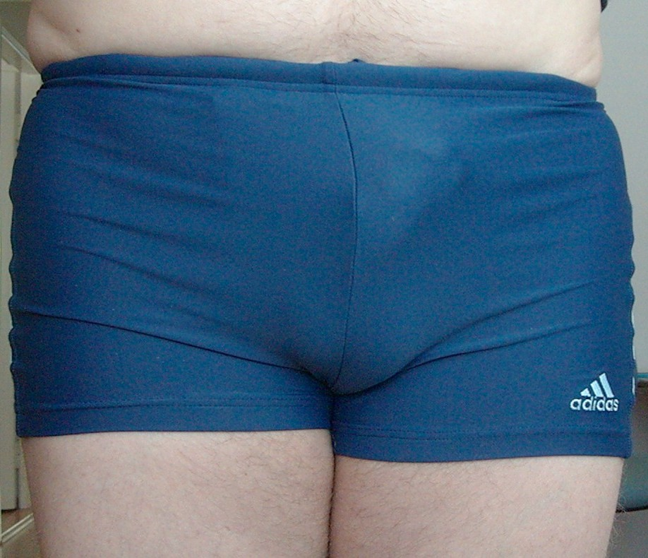 Man wearing Adidas swimming trunks.